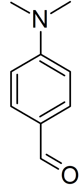 para-Dimethylaminobenzaldehyde